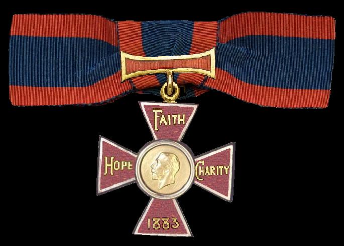 The Order of the Royal Red Cross and bar.